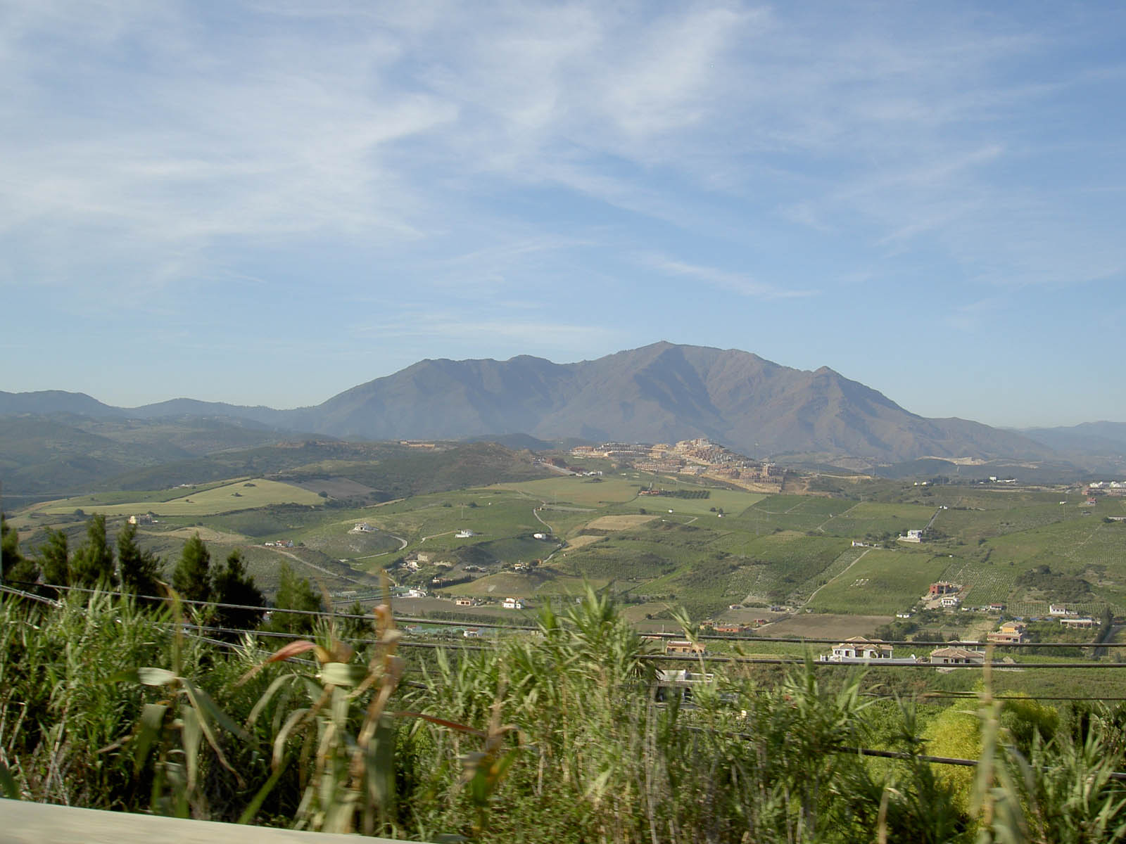 view of the mountain range from Costa del Sol